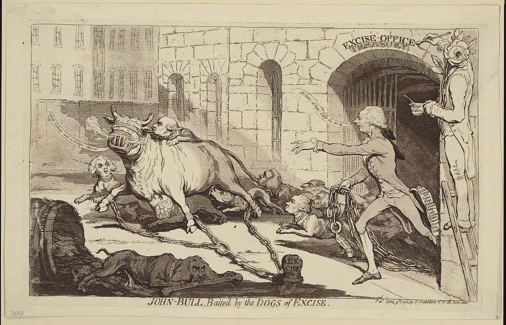 SUMMARY: A British satire on efforts by William Pitt, George Rose, and some members of Parliament to impose new "Excise" duties on tobacco (cf. Tobacco Excise Bill). The additional tax burden on British citizens is implied by the image of a bull, muzzled and blindfolded, with legs chained to a stump, being harassed by dogs (depicted with heads of members of Parliament). Edward Thurlow, also shown as a dog, registers his opposition to these "New Excise Fetters for John Bull" by urinating on tobacco leaves. Among the members of Parliament depicted are: William Wyndam Grenville, Henry Dundas, Charles Lennox Richmond, Charles Jenkinson, Richard Pepper Arden, Sir Charles Pratt Camden, and possibly Francis Osborne Carmarthen. MEDIUM: 1 print : etching and aquatint.